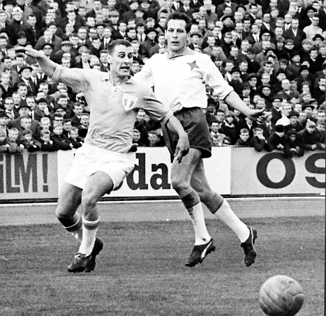 Jan Ekström (Malmö FF) and Åke „Bajdoff“ Johansson (IFK Norrköping) 26/4 Malmö stadion.